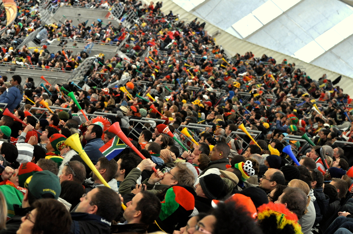 Vuvuzelas during the game between Portugal and North Korea at FIFA World Cup 2010, 21 June 2010, Green Point Stadium, Cape Town. Original description by the photographer: "This time round, they were all blowing their vuvuzela's in unison!."